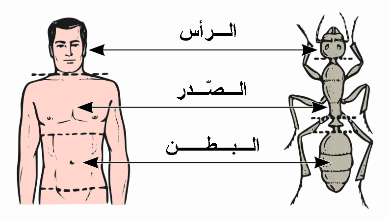 Comparison between abdomen, thorax and head in human and insects.